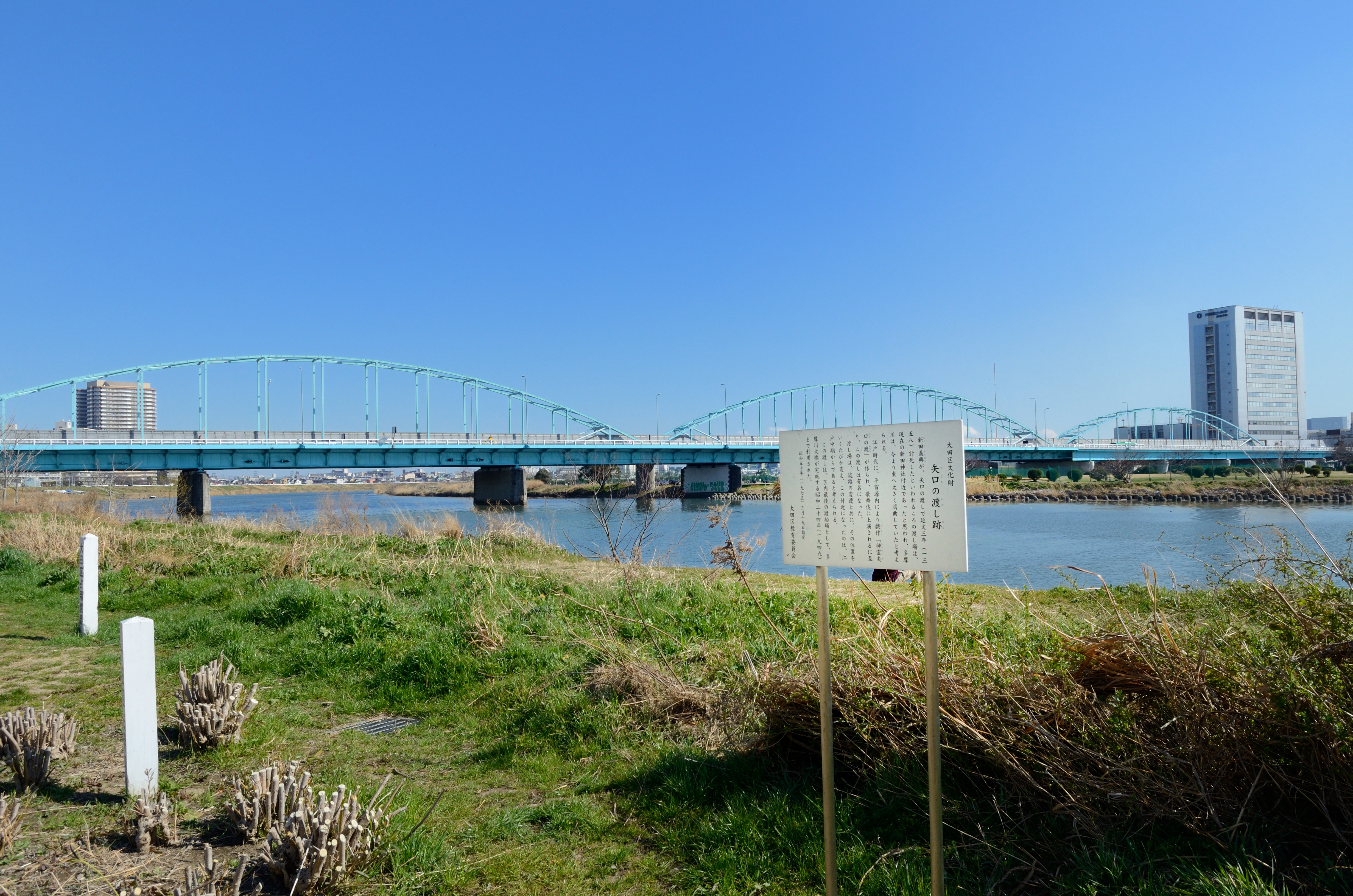 Site of Yaguchi Ferry Port at Ōta, Tokyo.